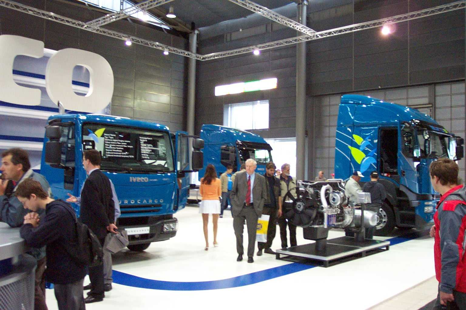 Iveco trucks at Autotec trade fair at Brno.